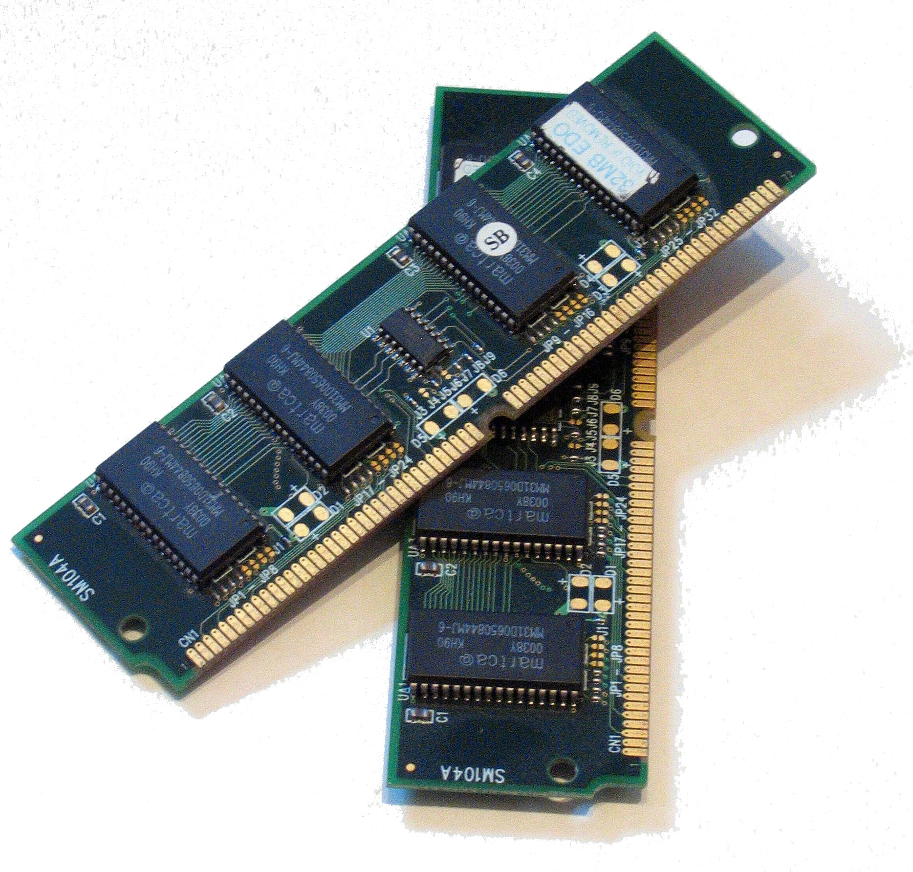 A pair of 32MB EDO-DRAM 72-pin SIMM-s. Each individual chip is 8M×8.